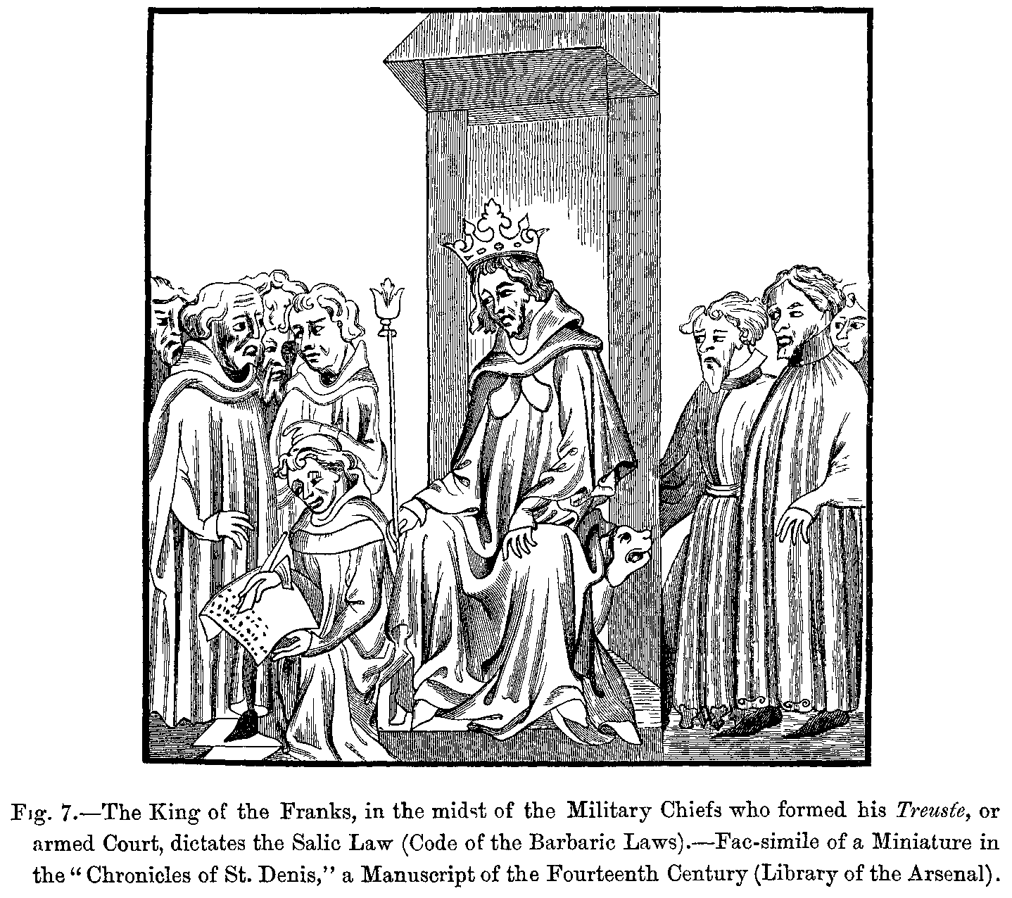 Clovis I, the King of the Franks, in the midst of the Military Chiefs who formed his Treuste, or armed Court, dictates the Salic Law (Code of the Barbaric Laws). -- Fac-simile of a Miniature in the "Chronicles of St. Denis," a Manuscript of the Fourteenth Century (Library of the Arsenal).